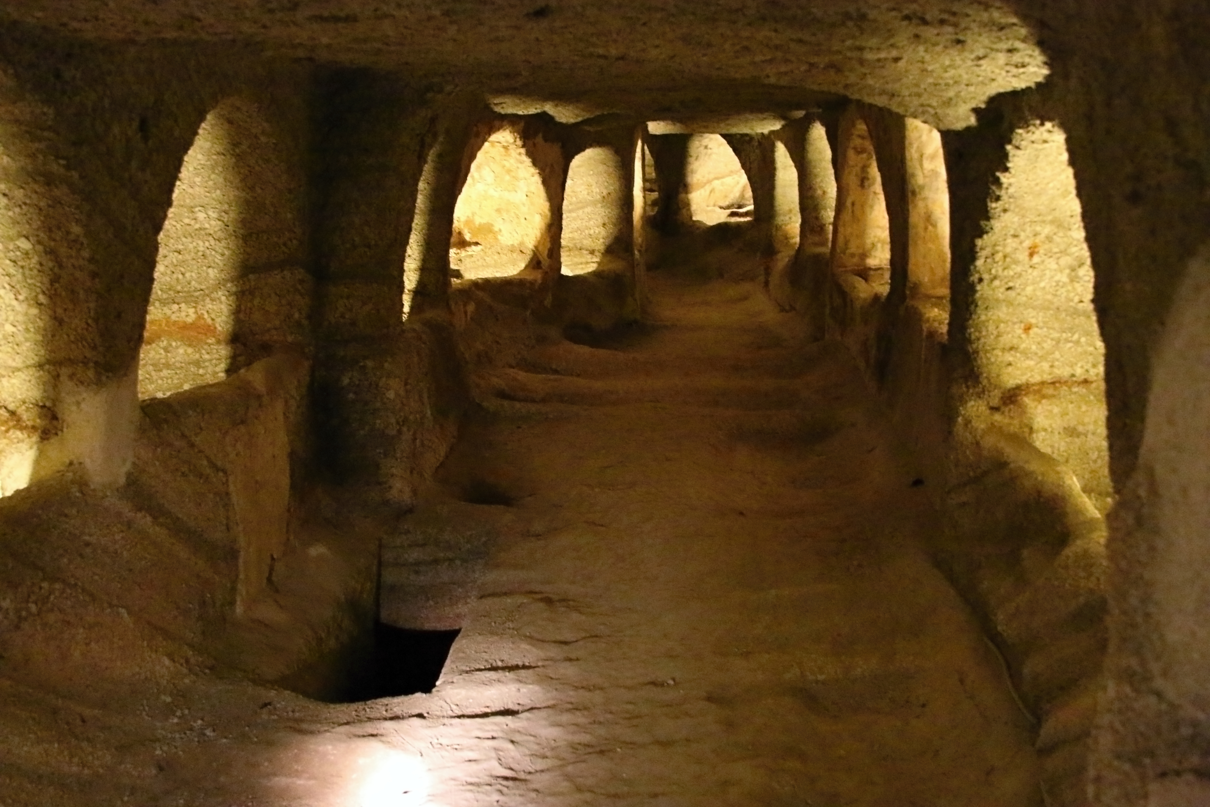 Catacombs of Milos, one of the corridors.